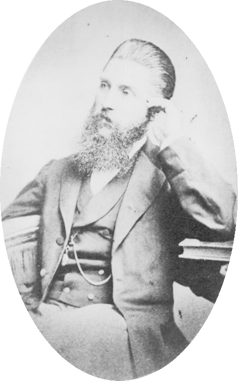 Adolf Jensen (1837—1879), german composer, pianist and musical educator